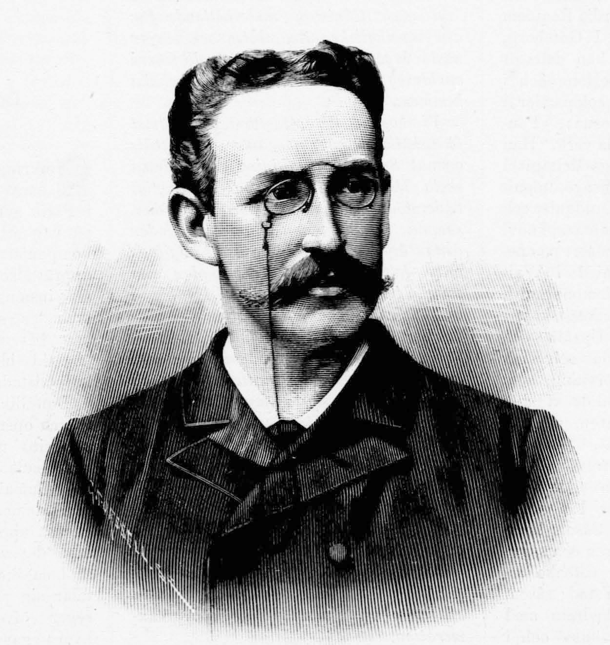 Salomon Smith (1853-1938)